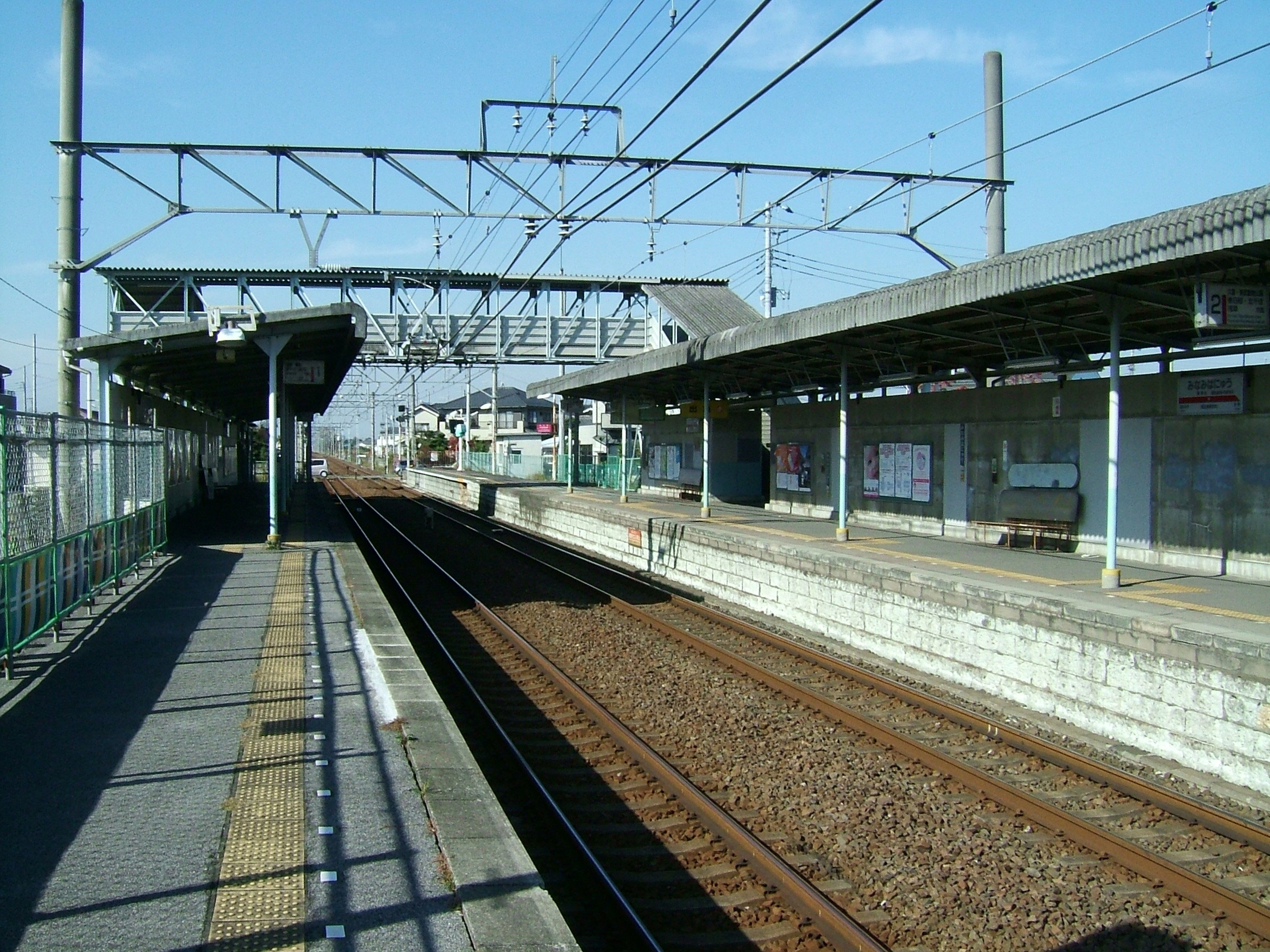 Minami-Hanyū Station platform (Tōbu Railway Isesaki Line)